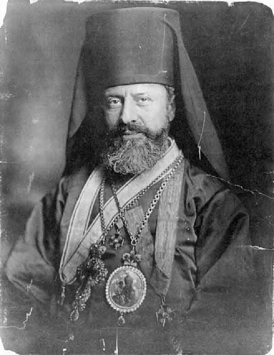 Saint Raphael of Brooklyn (November 20, 1860 – February 27, 1915)